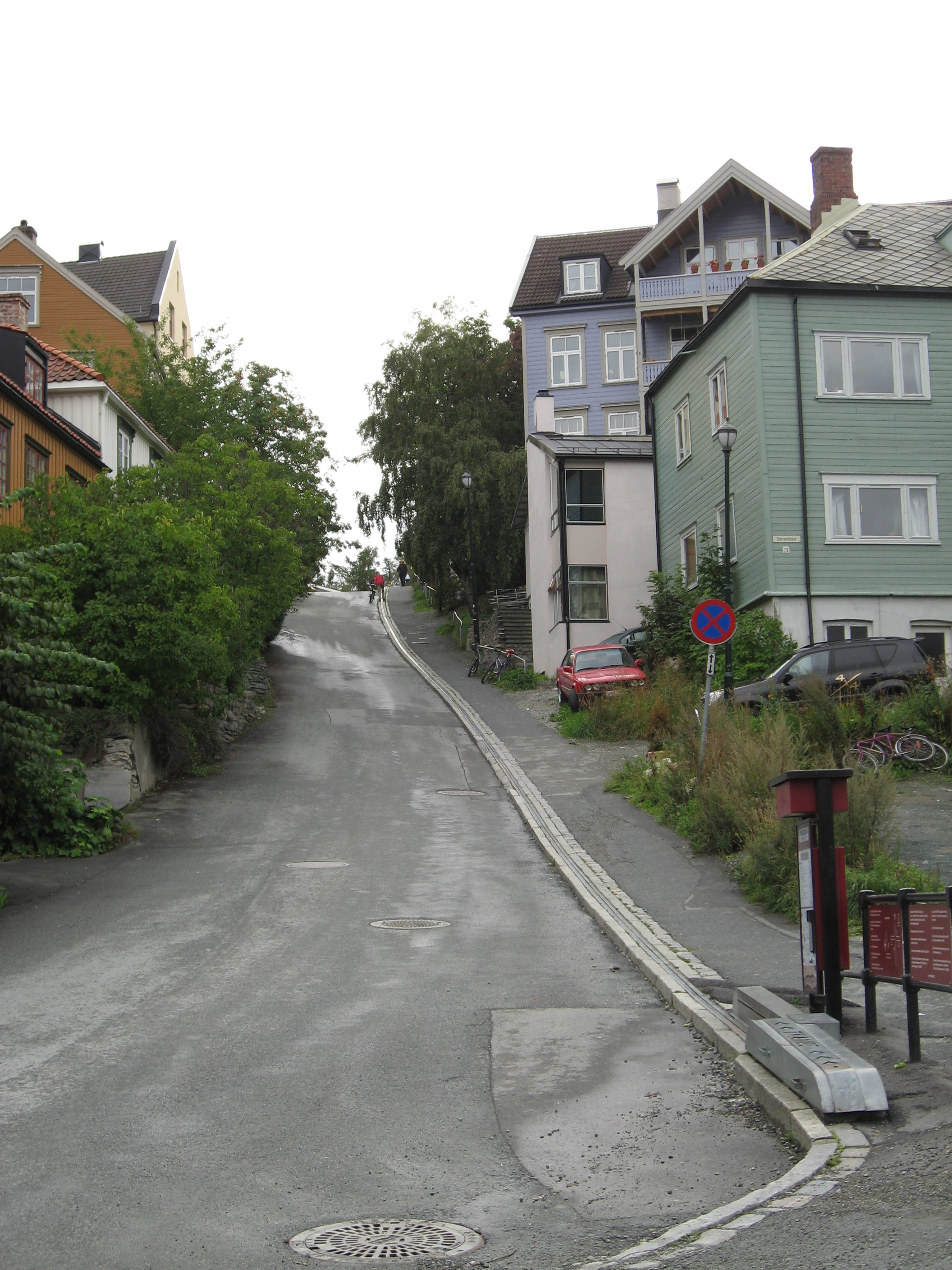 The Trampe bicycle lift in Trondheim, Norway. Photo taken by Alan Ford 2006-09-04.